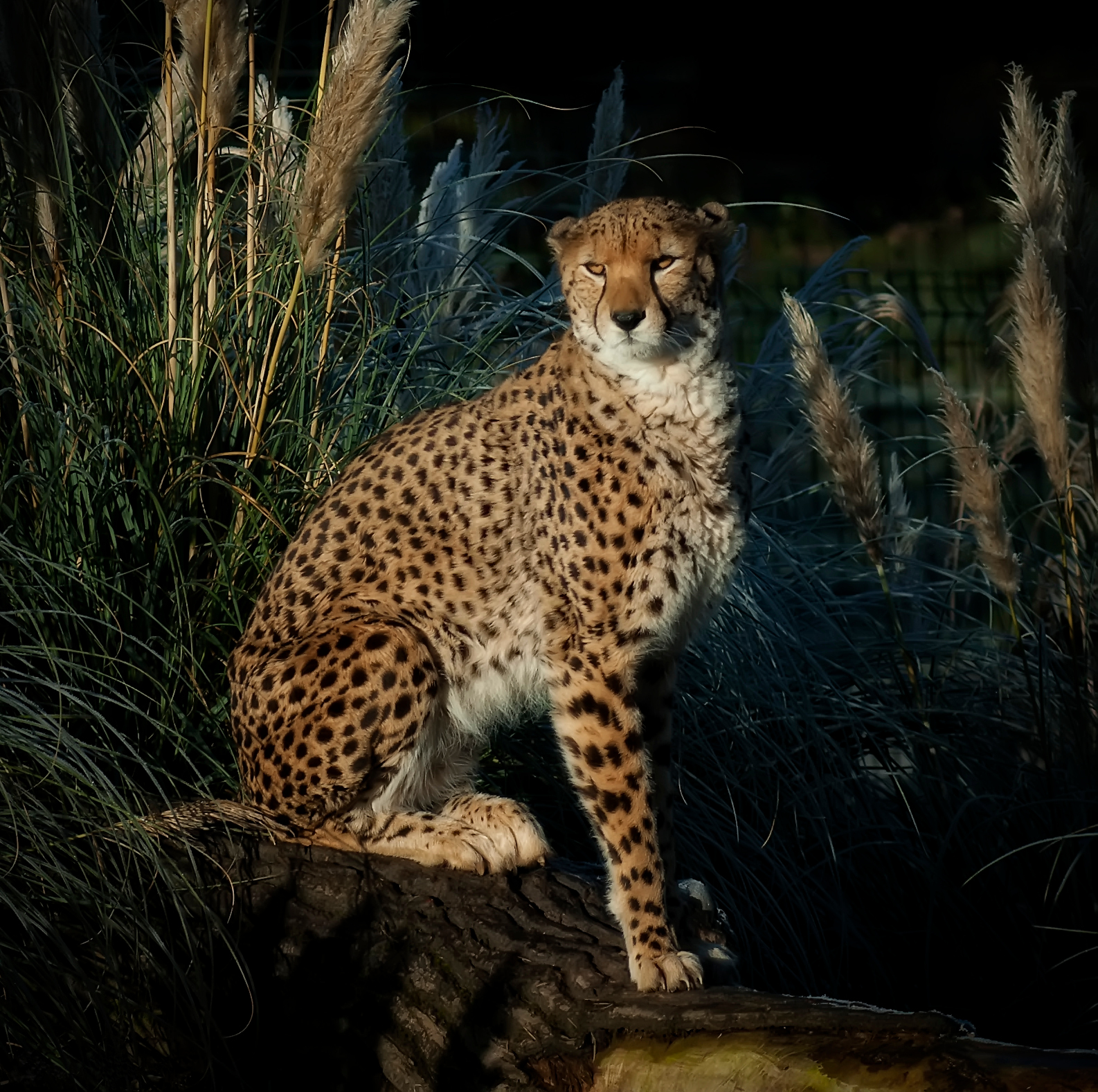 Rare Northern Cheetah at Chester Zoo